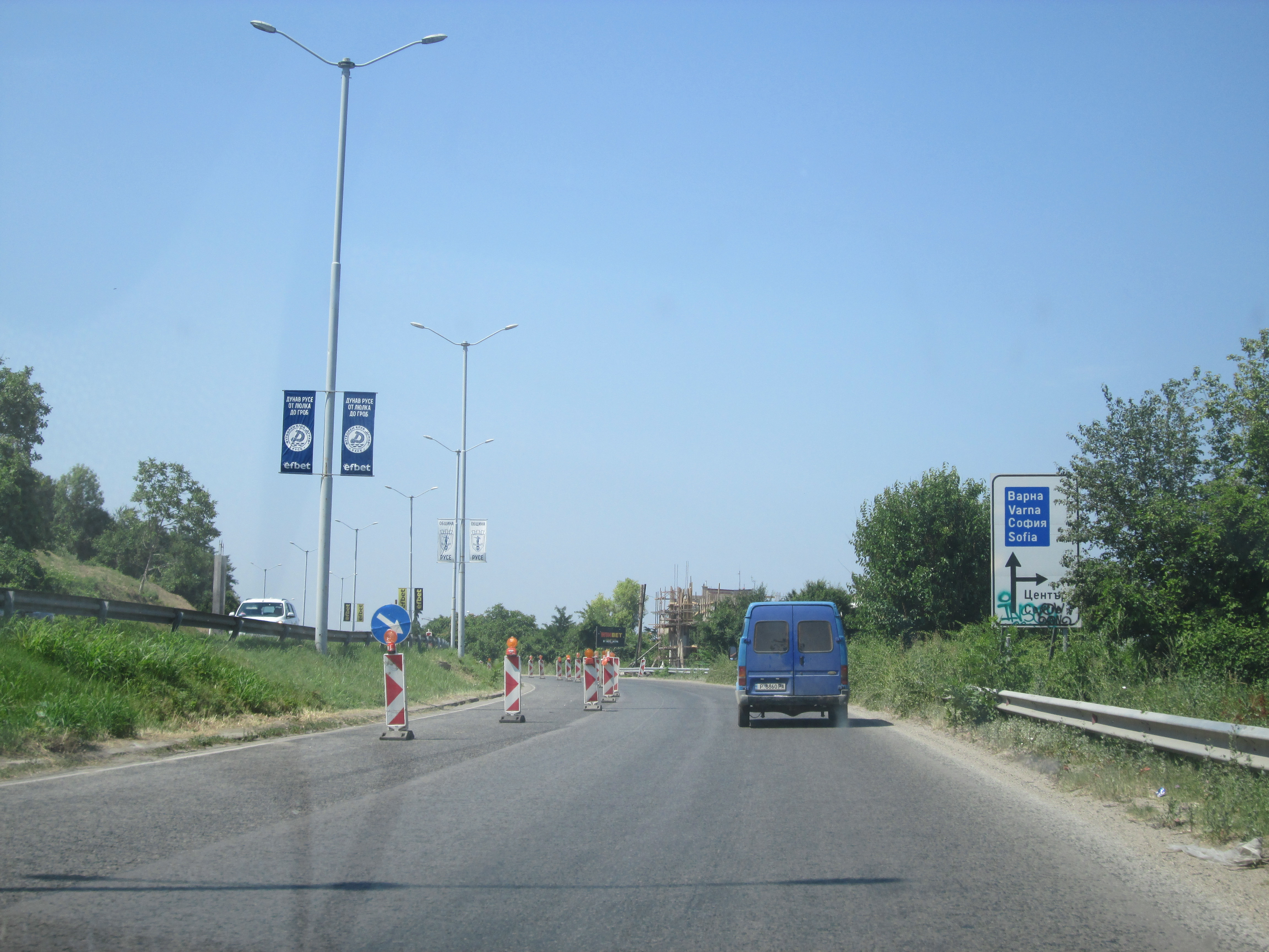 Republican Highway I-5, part of the Ruse Bypass. Notice the construction works for a bridge.